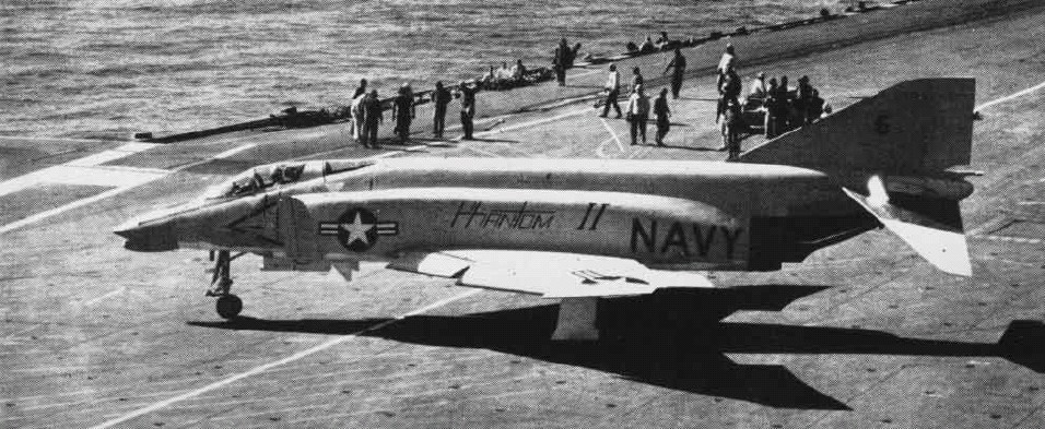 A U.S. Navy McDonnell F4H-1F (later F-4A-1-MC) Phantom II fighter during carrier trials on the aircraft carrier USS Independence (CVA-62) in April 1960. Note the early-style smaller radome, the differently shaped air intakes, and the flat aft cockpit. This is the sixth production aircraft, BuNo 143391, which had a blown-flap system of boundary layer control, which was later adopted for production.